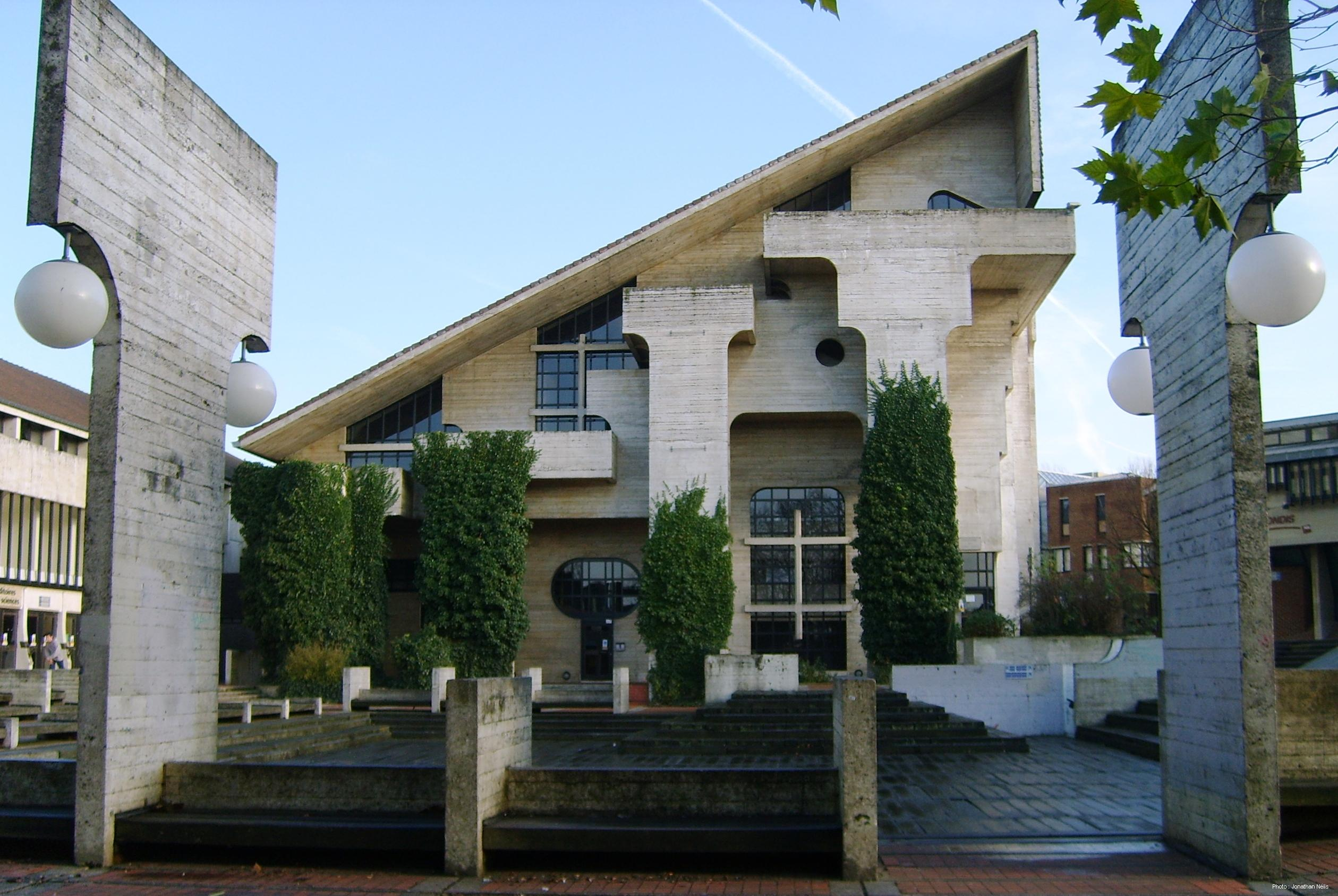 Louvain-la-Neuve, Belgium, the Science and Technology Library of the Université catholique de Louvain (1973 - Architect: André Jacqmain).